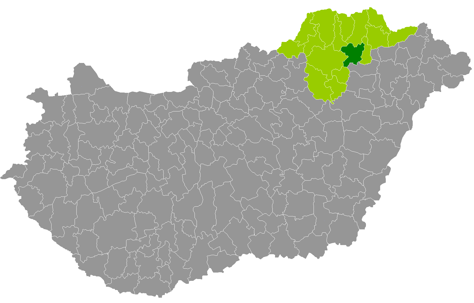 Location of Szerencs District, Borsod-Abaúj-Zemplén, Hungary